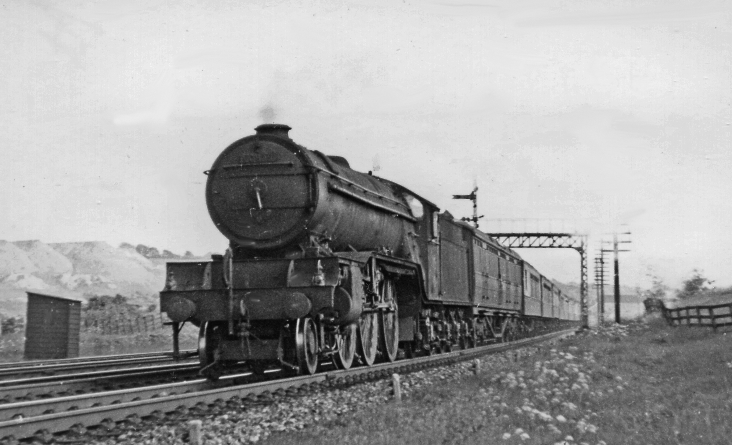 Down 'Queen of Scots' at Metal Bridge, north of Ferryhill. View south, towards Ferryhill, Darlington etc. on the ECML. Unimpressive with a dirty locomotive lacking the express's headboard, the 'Queen of Scots' Pullman left King's Cross at 12.00 and has come via Leeds (reverse) and Harrogate - rather than York, then Darlington, call at Newcastle and Edinburgh, terminating at Glasgow Queen Street at 21.12. The locomotive is Gresley V2 No. 60975 (built 9/43 as No. 3687 (No. 975 from 1946), withdrawn 9/66).